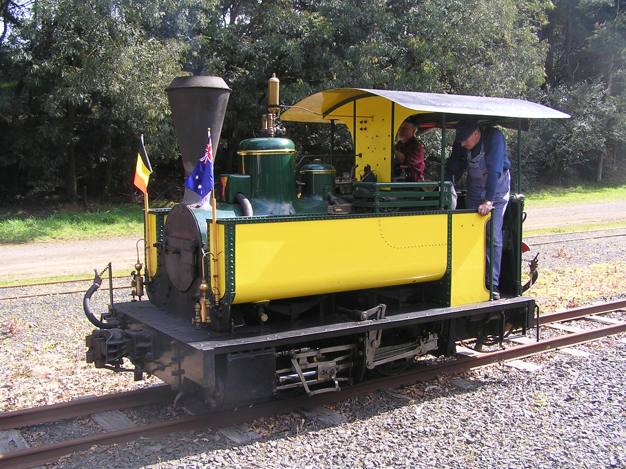 Decauville loco on Puffing Billy Railway Australia